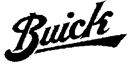 Buick 1912 logo